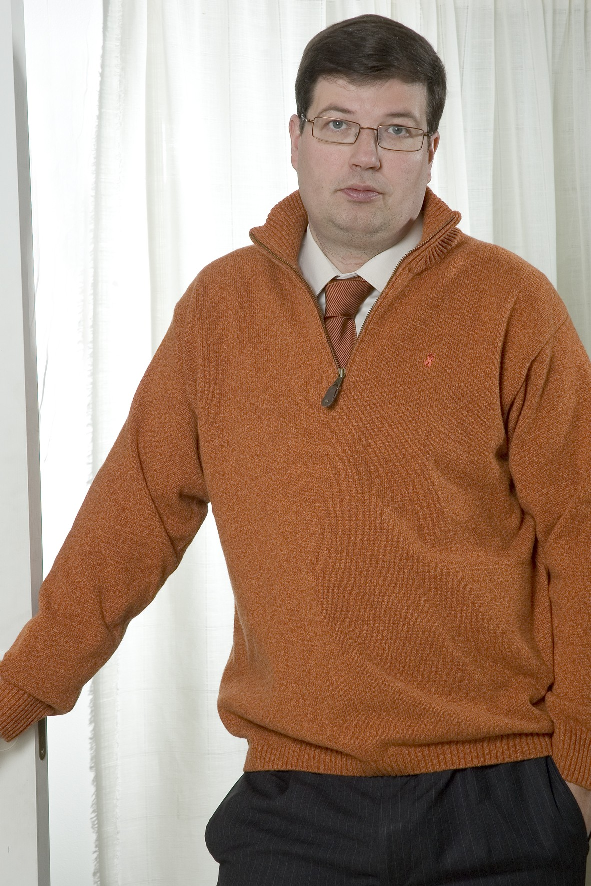 Arto Satonen, member of the Finnish parliament, Finnish politician (2006, Tampere)